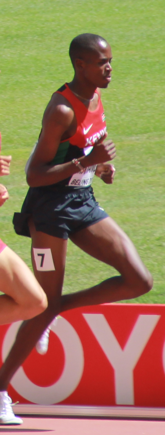 Elijah Motonei Manangoi at the 2015 World Championships in Athletics